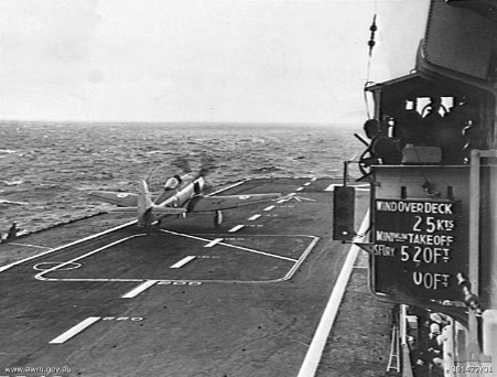 Australian War Memorial image 301472/01. A Sea Fury aircraft preparing to take off from HMAS Sydney during the aircraft carrier's flight trials